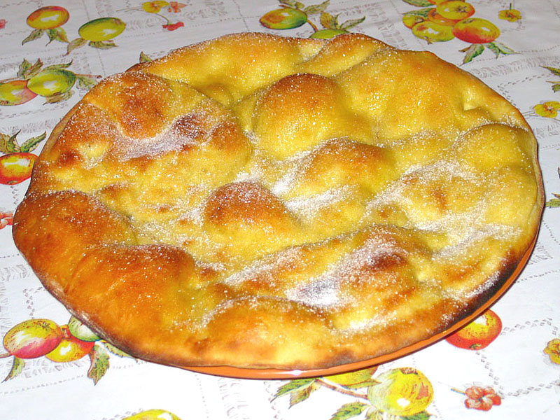 Coca de sucre del Priorat, Catalunya. Sugar coca from the Priorat county, Catalonia, Spain.